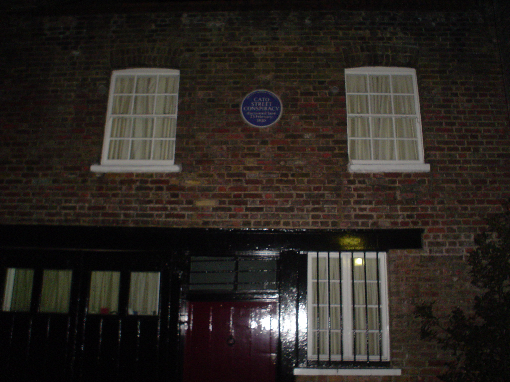 A picture of the London building where the Cato Street conspirators were discovered